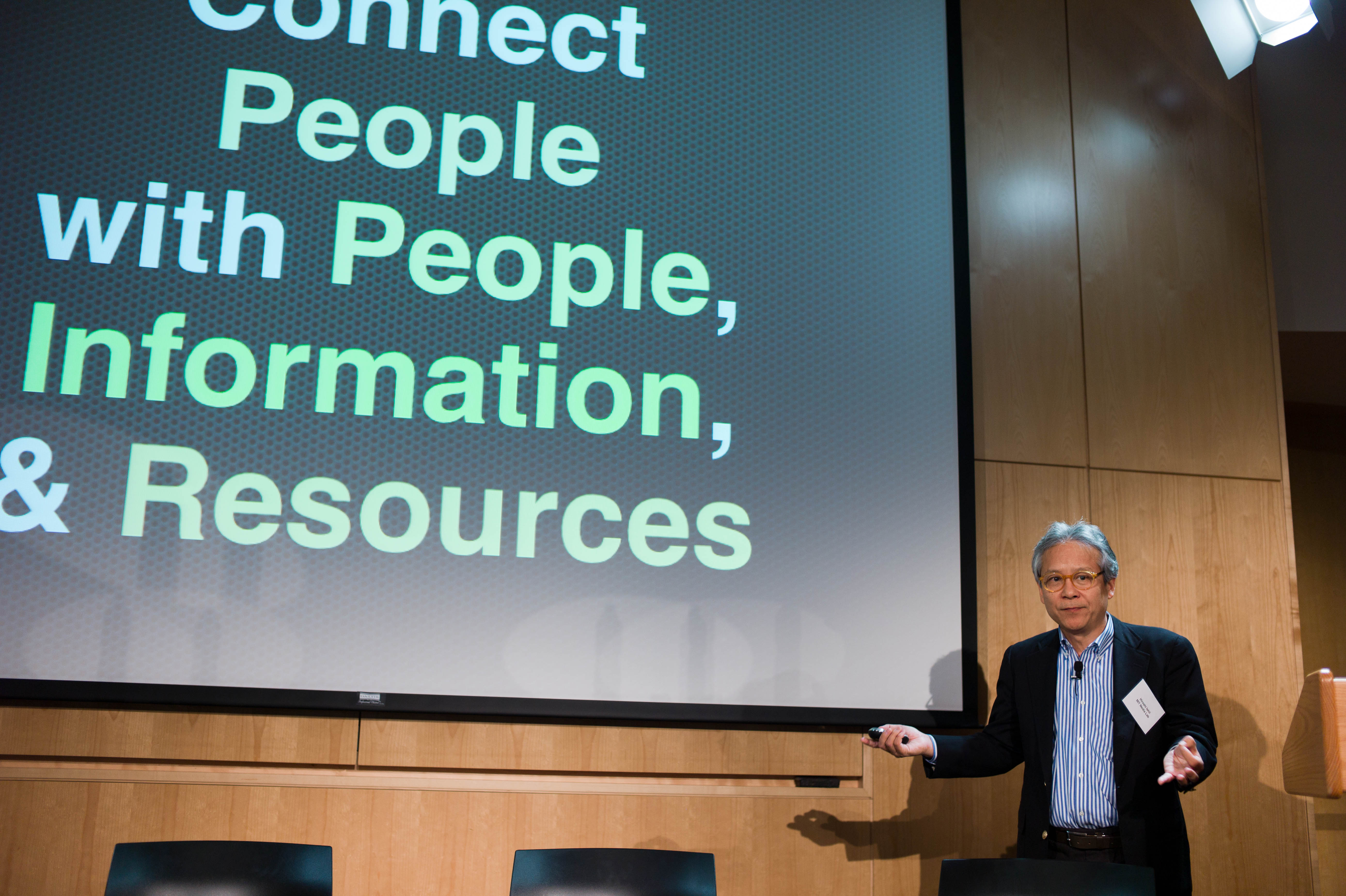 Hiroshi Ishii, Associate Director of the Media Lab, the Massachusetts Institute of Technology, spoke in Boston City, Massachusetts Commonwealth on April 6, 2012.